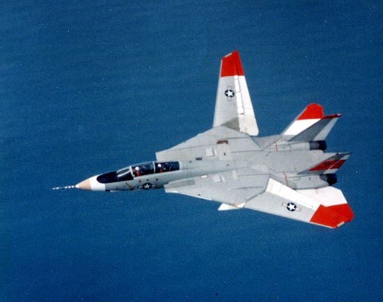 Manufacturer: Grumman Designation: F-14 Official Nickname: Tomcat